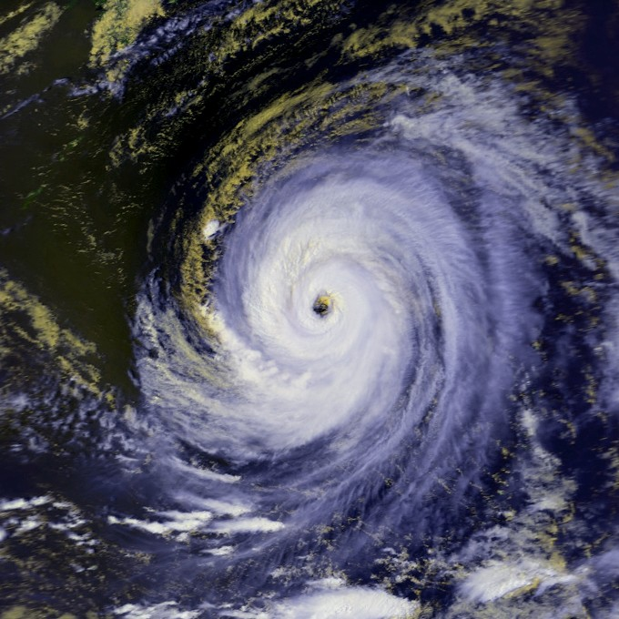 Typhoon Vera on August 24 at approximately 0522 UTC. This image was produced from data from NOAA-9, provided by NOAA.